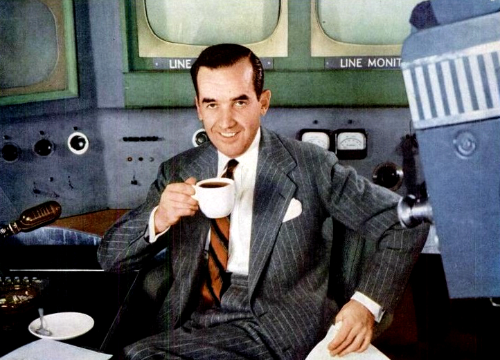 Photo of Edward R. Murrow on the television news set.